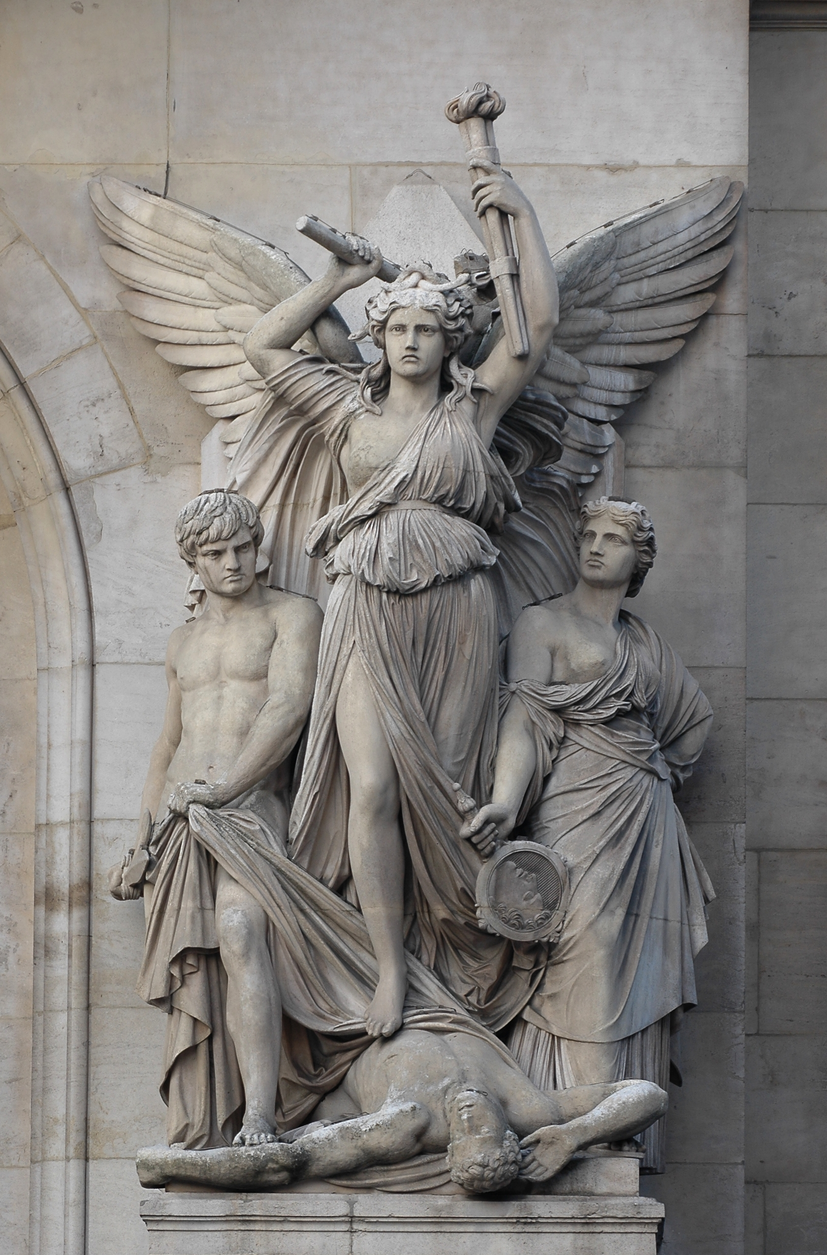 Lyric drama by Jean-Joseph Perraud, façade of the Palais Garnier, Paris.